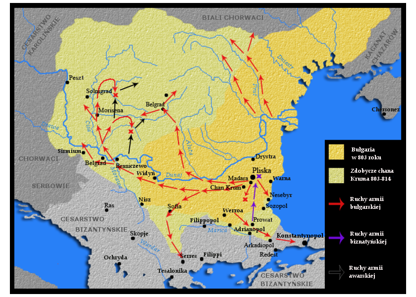 Territorial expansion during the reign of Khan Krum (803-814)